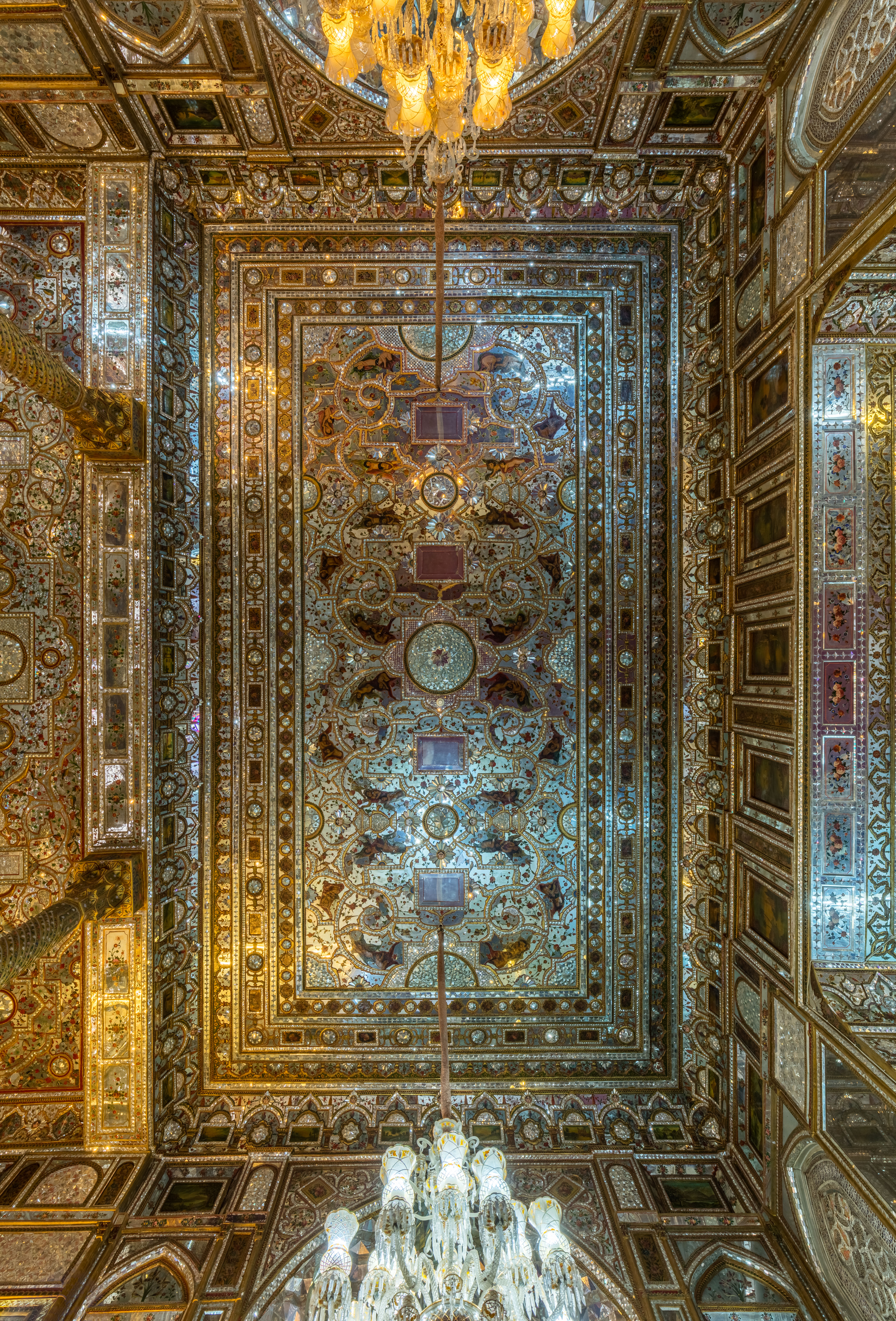 Ceiling of the central room of the Windcatcher (Emarat e Badgir), built during the reign of Fath-Ali Shah Qajar and part of the Golestan Palace, the former royal Qajar complex in Iran's capital city, Tehran. The UNESCO World Heritage Site belongs to a group of royal buildings that were once enclosed within the mud-thatched walls of Tehran's arg ("citadel") and is one of the oldest of the historic monuments in the city.